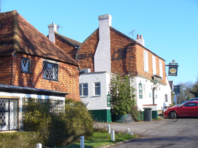 Alfold Old tile-hung cottages and Crown inn on the Loxwood Road at the centre of the village.